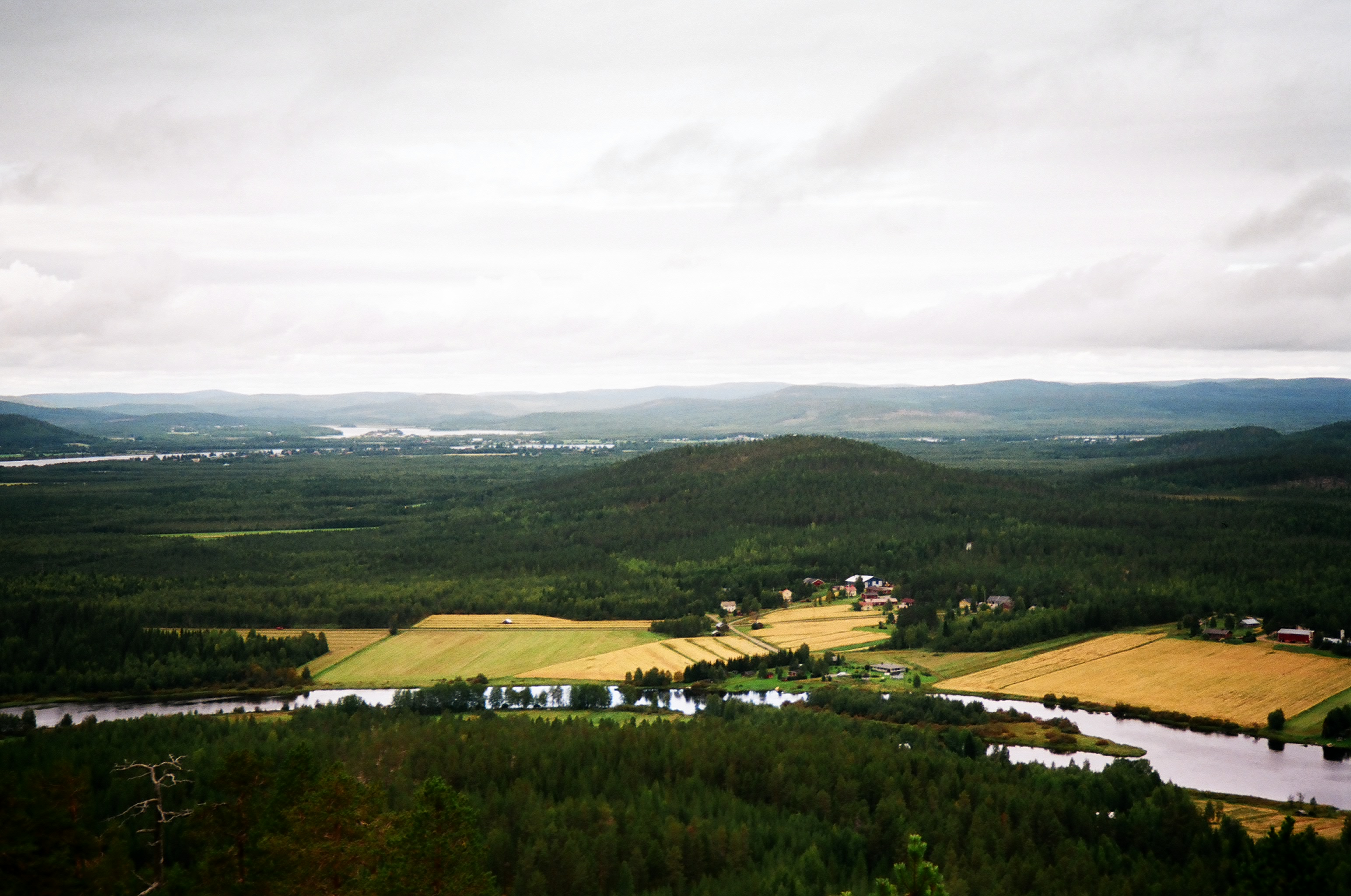 View from the top of Aavasaksa hill in Finnish Lapland, facing North. This view is the best know sight from Aavasaksa, especially during midsummer when the midnight sun is passing close to the hilly horizon. On the foreground are the bend of the Tengeliö river and the small village of Aittamaa, while the huge Tornio river is crossing a group of medium sized hills further north.